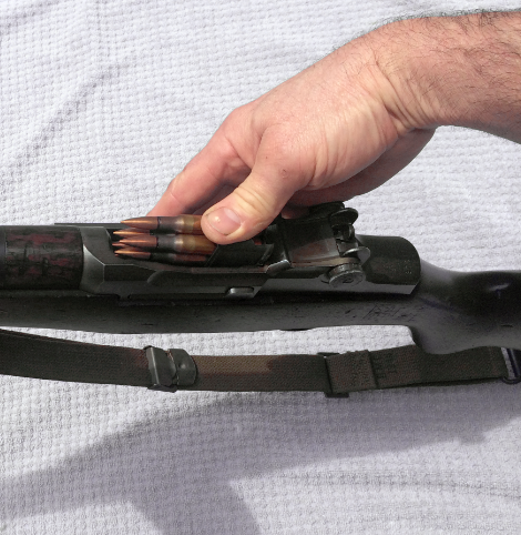 Photo of M1 Garand rifle taken 2015-06-20 by Samf4u.png